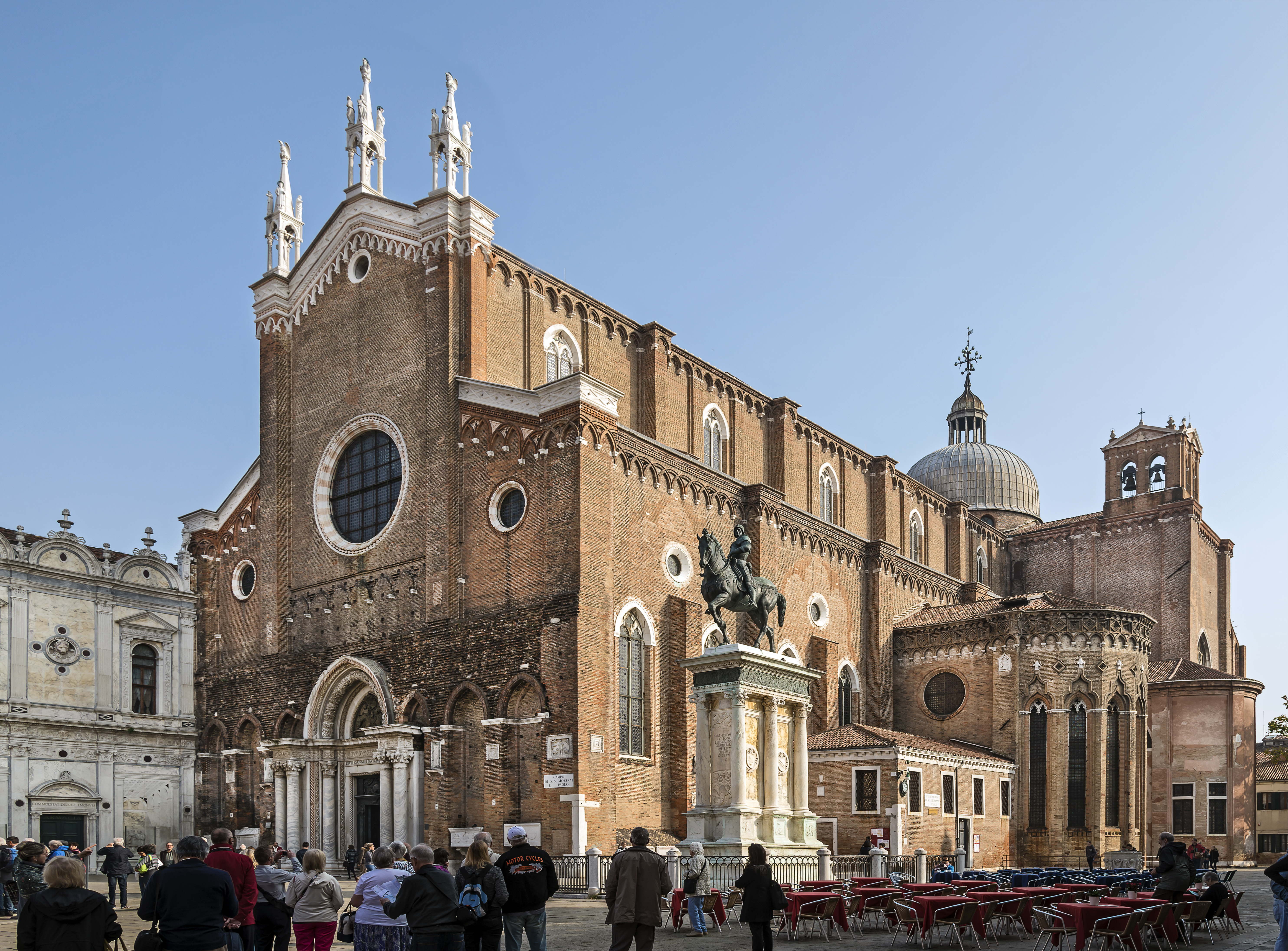 Santi Giovanni e Paolo, Venice from Campo San Zanipolo